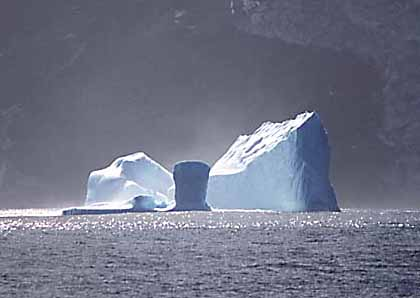 A capsized iceberg in Antarctica